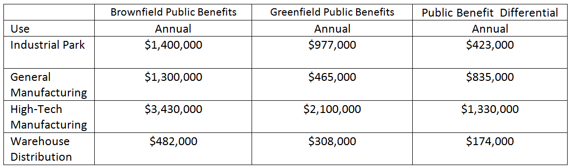 Public benefits differential between Brownfield and Greenfield development in four case studies